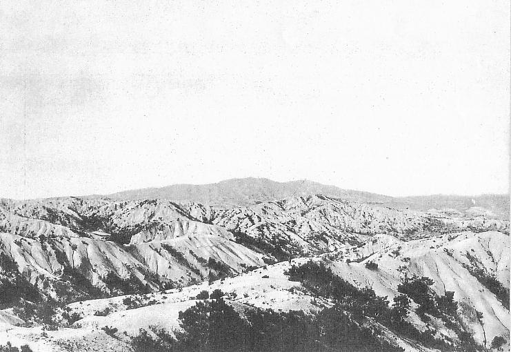 Bald mountains in Korea(present-day Yeoju County, Gyeonggi Province)